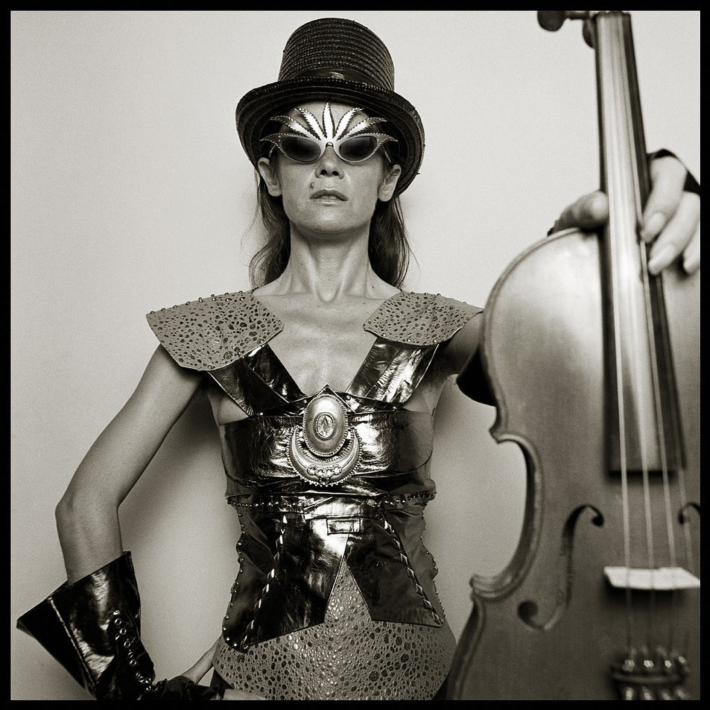 Portrait of Lina Mangiacapre